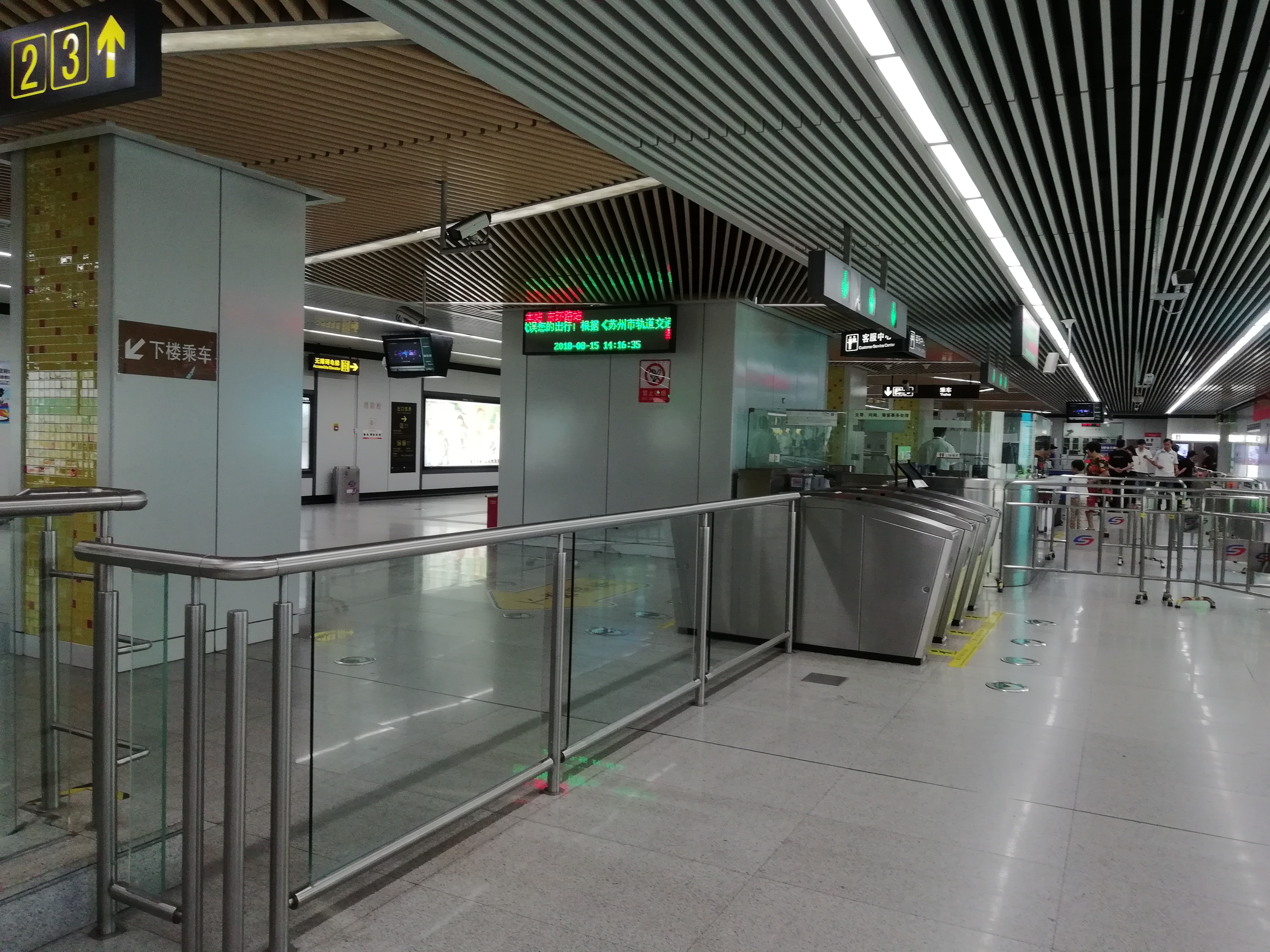 Station Hall of Donghuan Lu Station